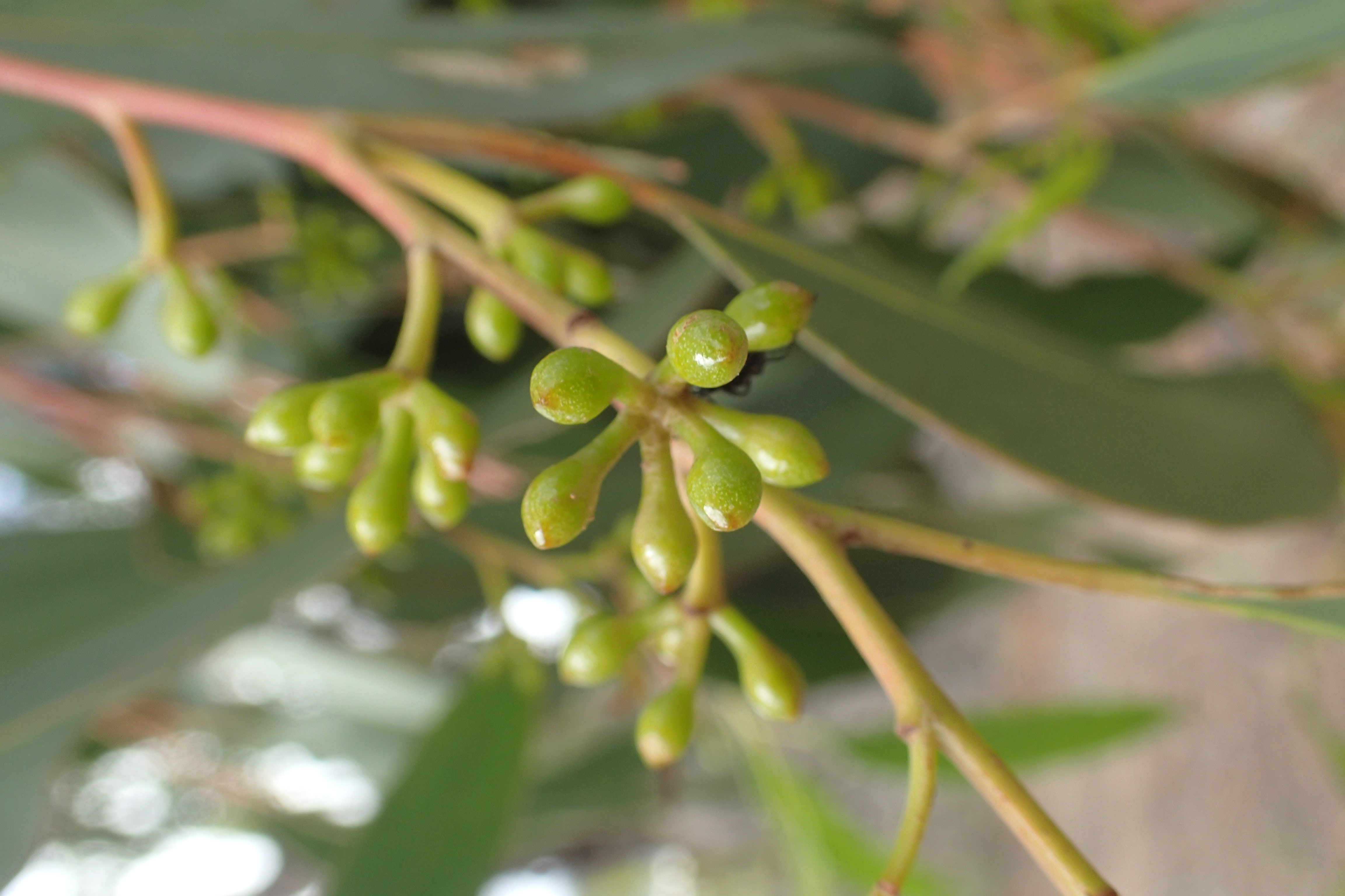 Flower buds of Eucalyptus youmanii along Sawpit Gully Road, near Uralla